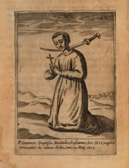 Engraving by Pierre Miotte showing João Baptista Machado, a Portuguese jesuit beheaded at Omura, Japan, May 22th, 1617.